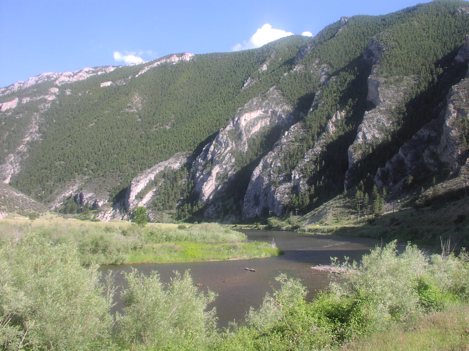 Limestone cliffs of the Jefferson River canyon.